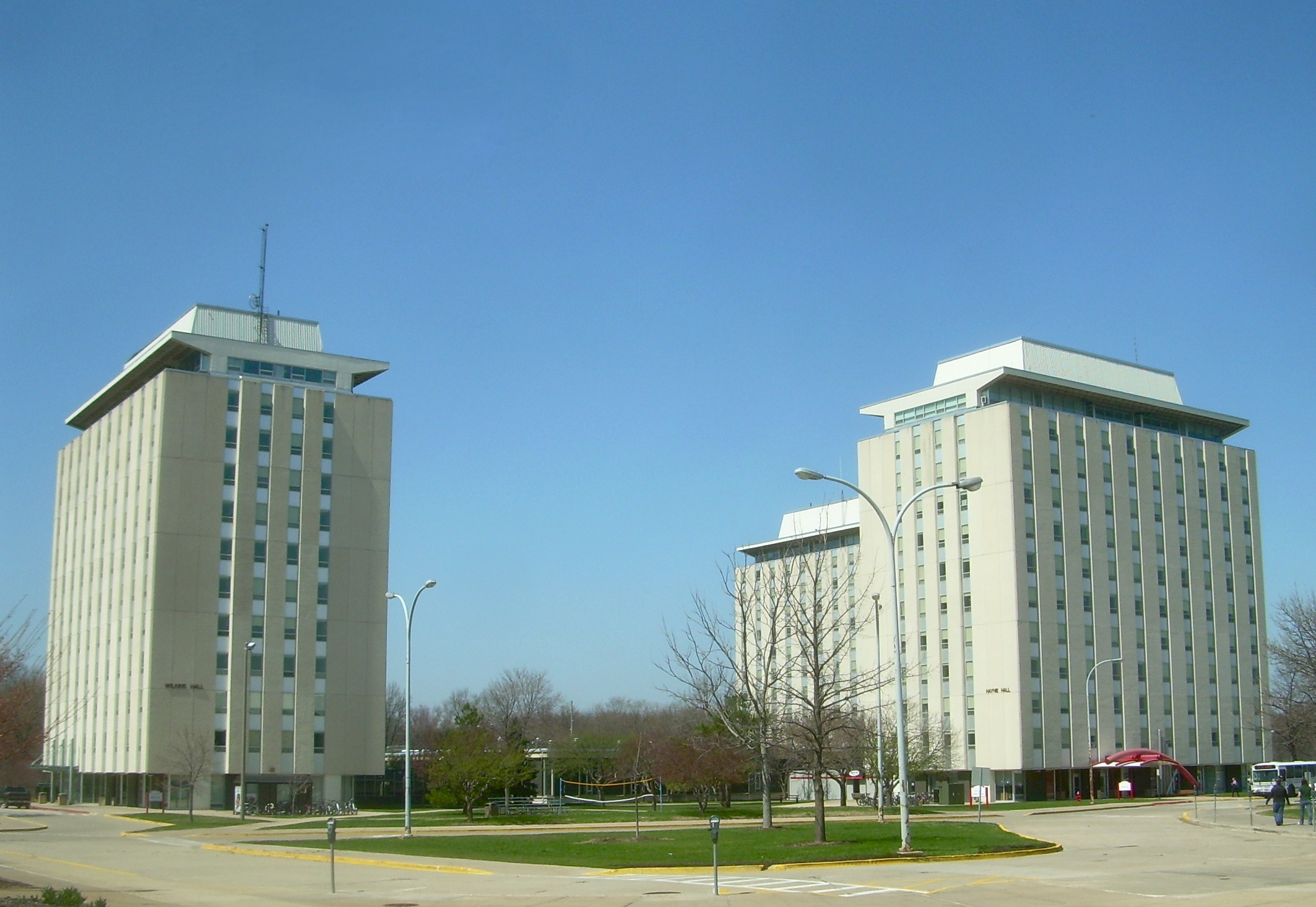 Wilkins, Haynie, and Wright Residence Halls also known as Tri-Towers and West Campus. Illinois State University, Normal, Illinois.